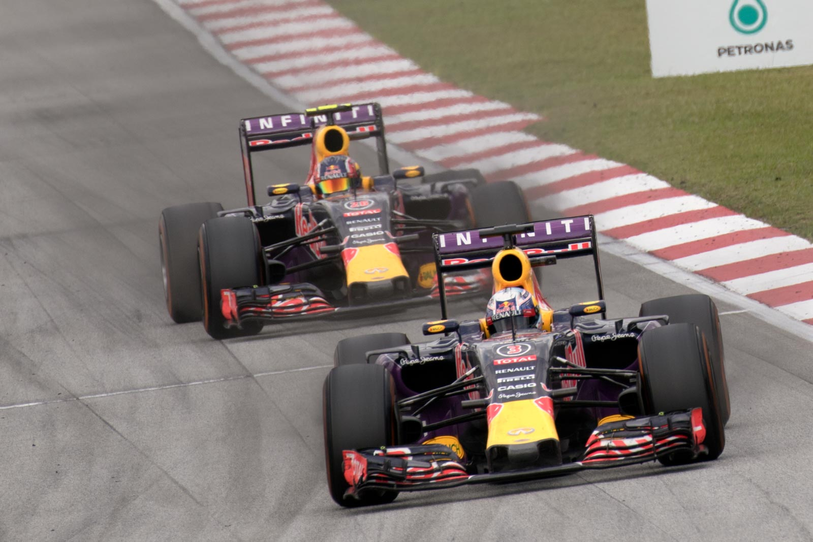 Formula One 2015 Rd.2 Malaysian GP: Daniel Ricciardo and Daniil Kvyat (Red Bull)